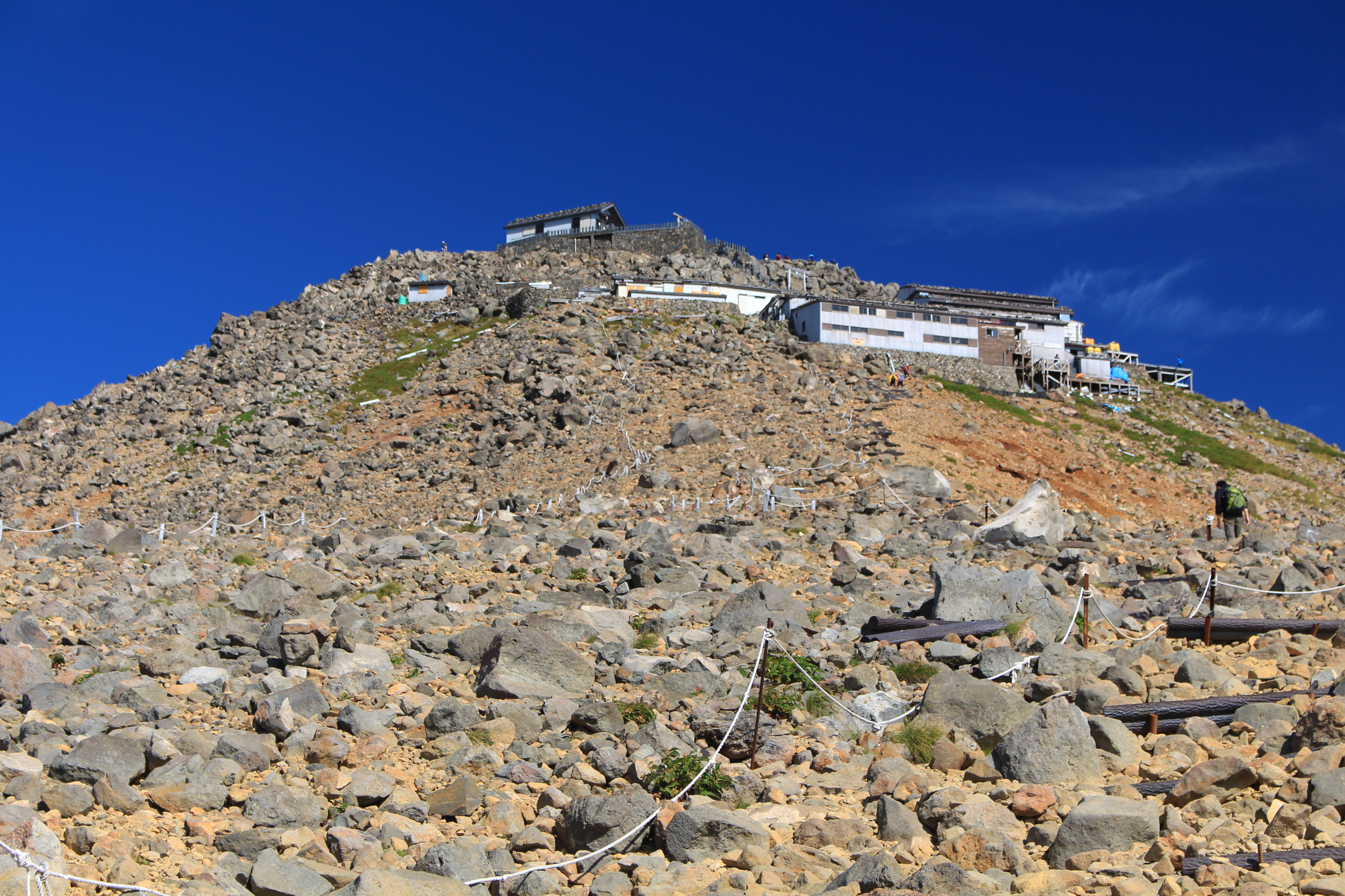 Kengamine, peak of Mount Ontake seen from Hatchōdarumi, in Nagano prefecture, Japan.